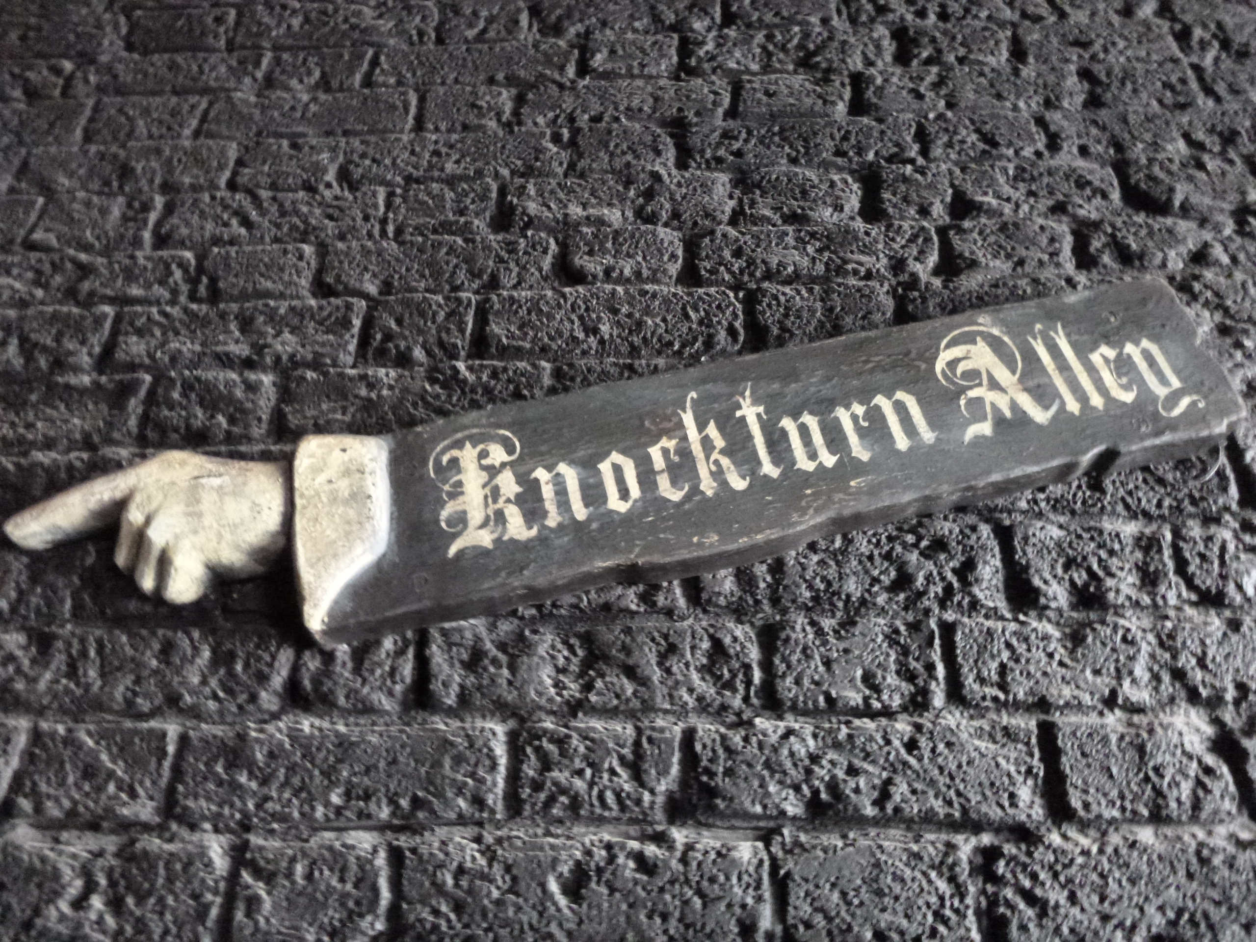 Sign to Knockturn Alley of Diagon Alley (Universal Studios Florida)